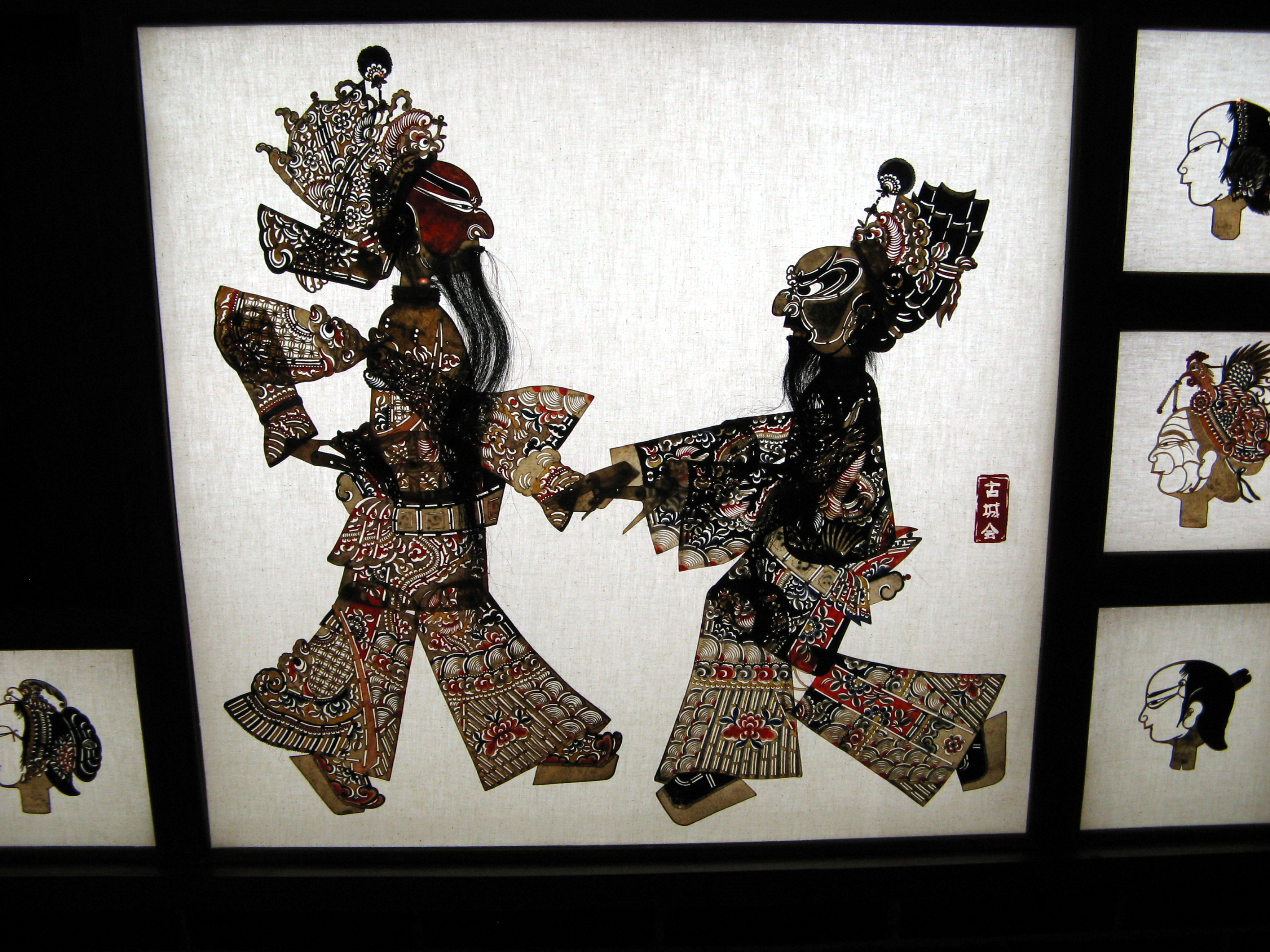 Shadow Puppets. Qing Dynasty or later. Sichuan Provincial Museum, Chengdu These elaborate shadow puppets are made of delicately cut and painted, thin, translucent leather hides. According to the museum label, they were used for a particular kind of shadow-puppet show that originated in Chengdu during the Qianlong period (1736-1795) of the Qing dynasty.